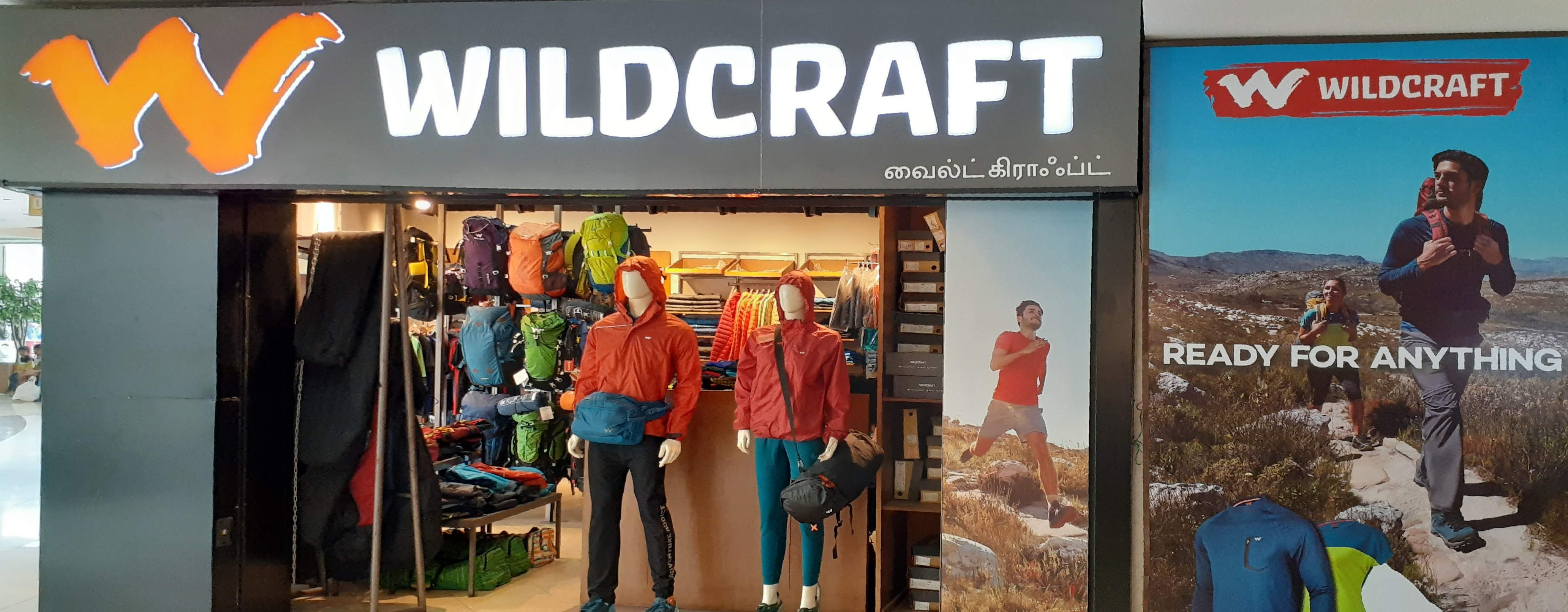 WildCraft Retail Clothing and Footwear, Chennai, Tamil Nadu, India.